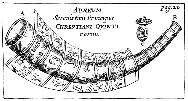 Depiction of the Gallehus Horn found in 1639 in the French Journal des Savants, vol. 6 (1678), reproduced in Isis, History of Science Society (1973), p. 237.